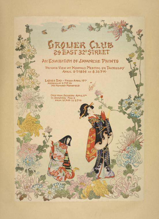 A Poster for an Exhibition of Japanese Prints at the Grolier Club, 1896.